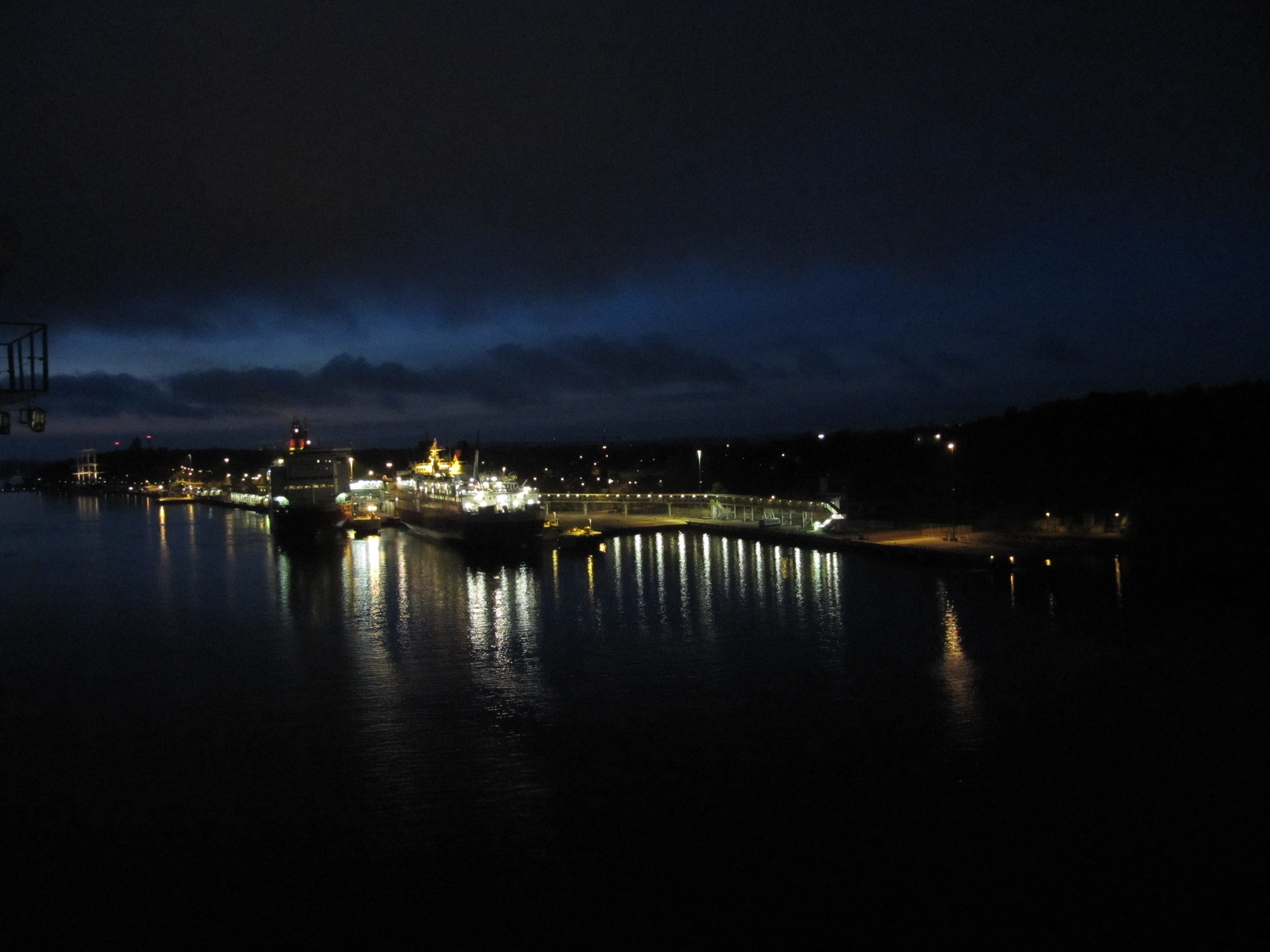 View of Mariehamn port at night as seen from a ferry coming from Stockholm